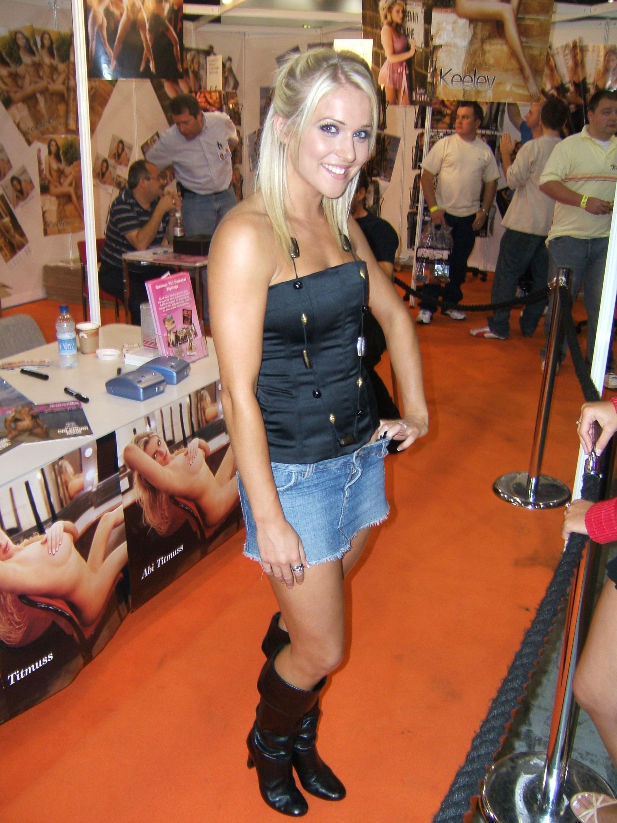 Kayleigh Pearson at Weekend at Dave's, ExCeL Exhibition Centre, London in September 2005.